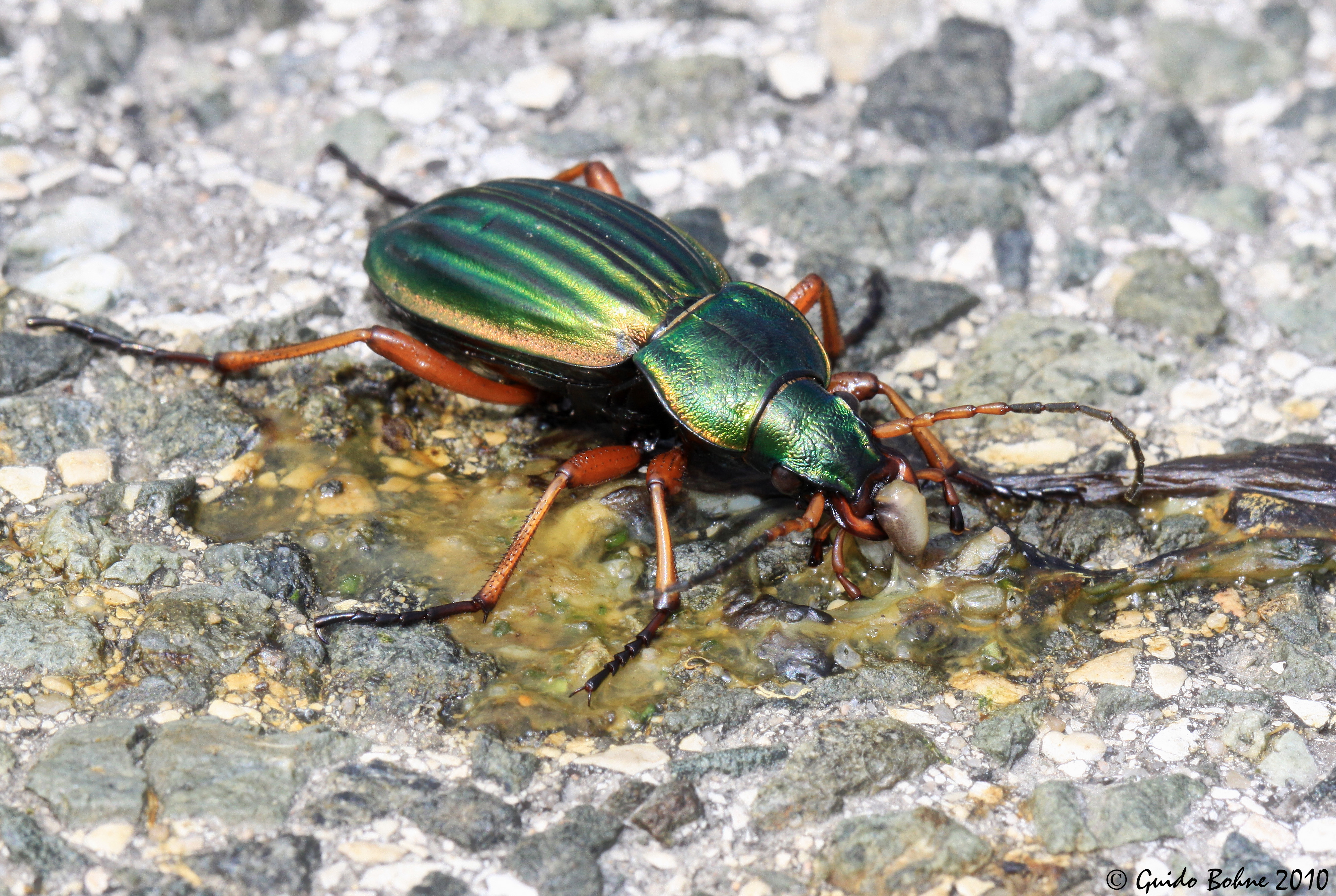 diurnal hunter & scavenger on sustainable agriculture (never found on intensive agriculture, where pesticides and insecticides are applied) Carabus auratus LINNAEUS, 1761 (Golden ground beetle, Goldlaufkäfer oder Goldschmied), ♀ Subgenus: Carabus Genus: Carabus (Großlaufkäfer) Subfamily: Carabinae Family: Carabidae (Ground beetles, Laufkäfer) Suborder: Adephaga Order: Coleoptera (beetles, Käfer) L.: 2-3 cm Germany, Bavaria, ca. 40 km SE Würzburg, vic. yyyyy, xxx m asl., 15.07.2010 (IMG_5130)